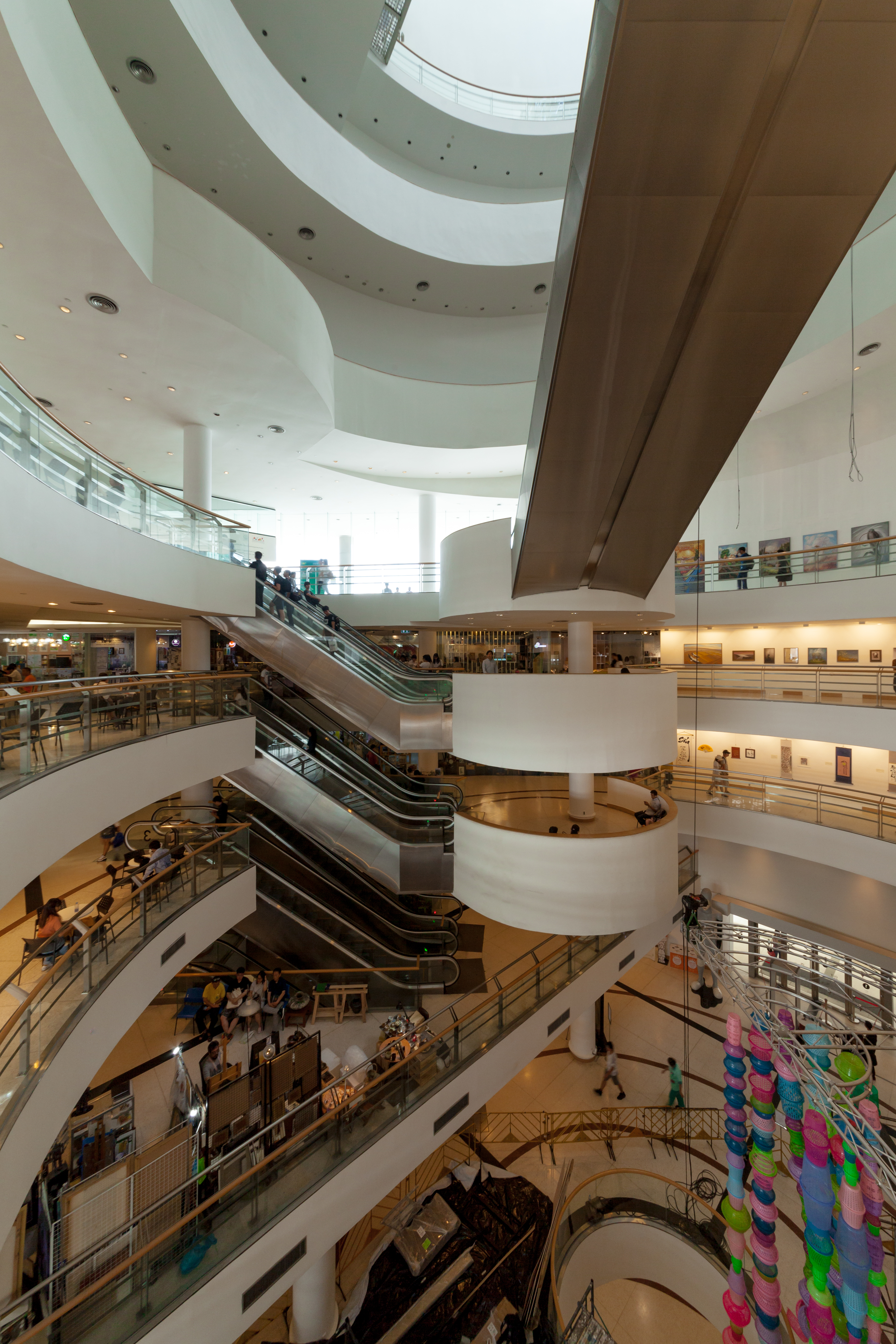 Bangkok Art and Culture Centre designed by Robert G. Boughey & Associates (RGB Architects) located at Pathum Wan district Bangkok.